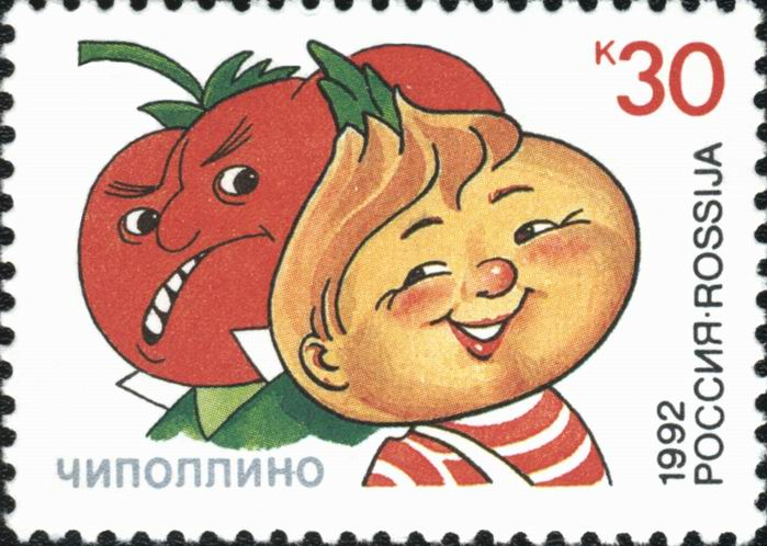 A Russia stamp